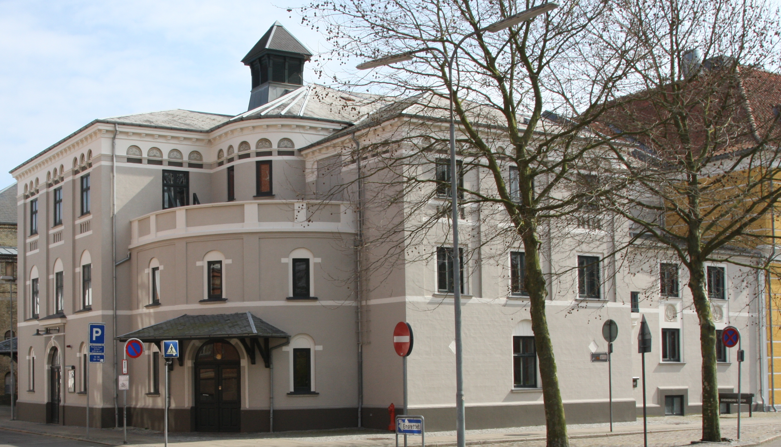 Svendborg Teater (Theatre).